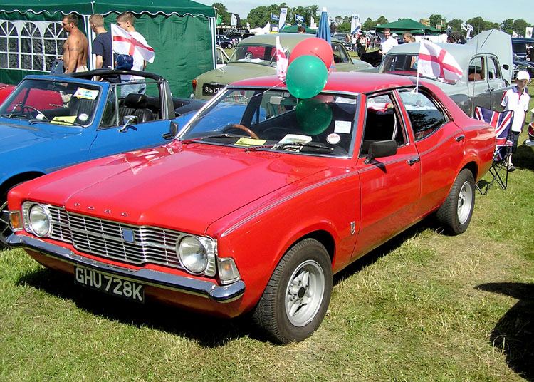 1972 Ford Cortina Mk3 at Bristol Car Show, The Downs, Bristol, England.